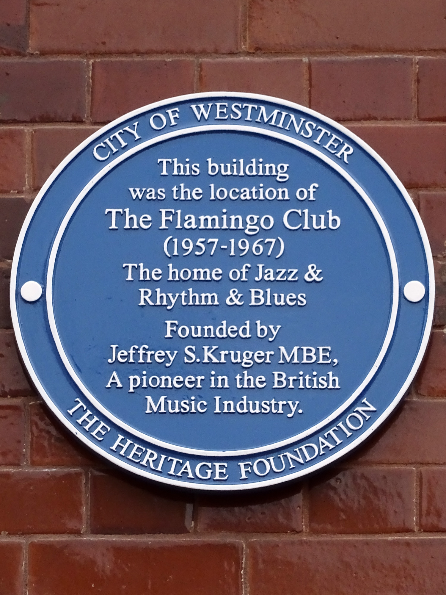 Blue plaque erected on 1st June 2017 at 33-37 Wardour Street, London W1D 6PU by City of Westminster and The Heritage Foundation